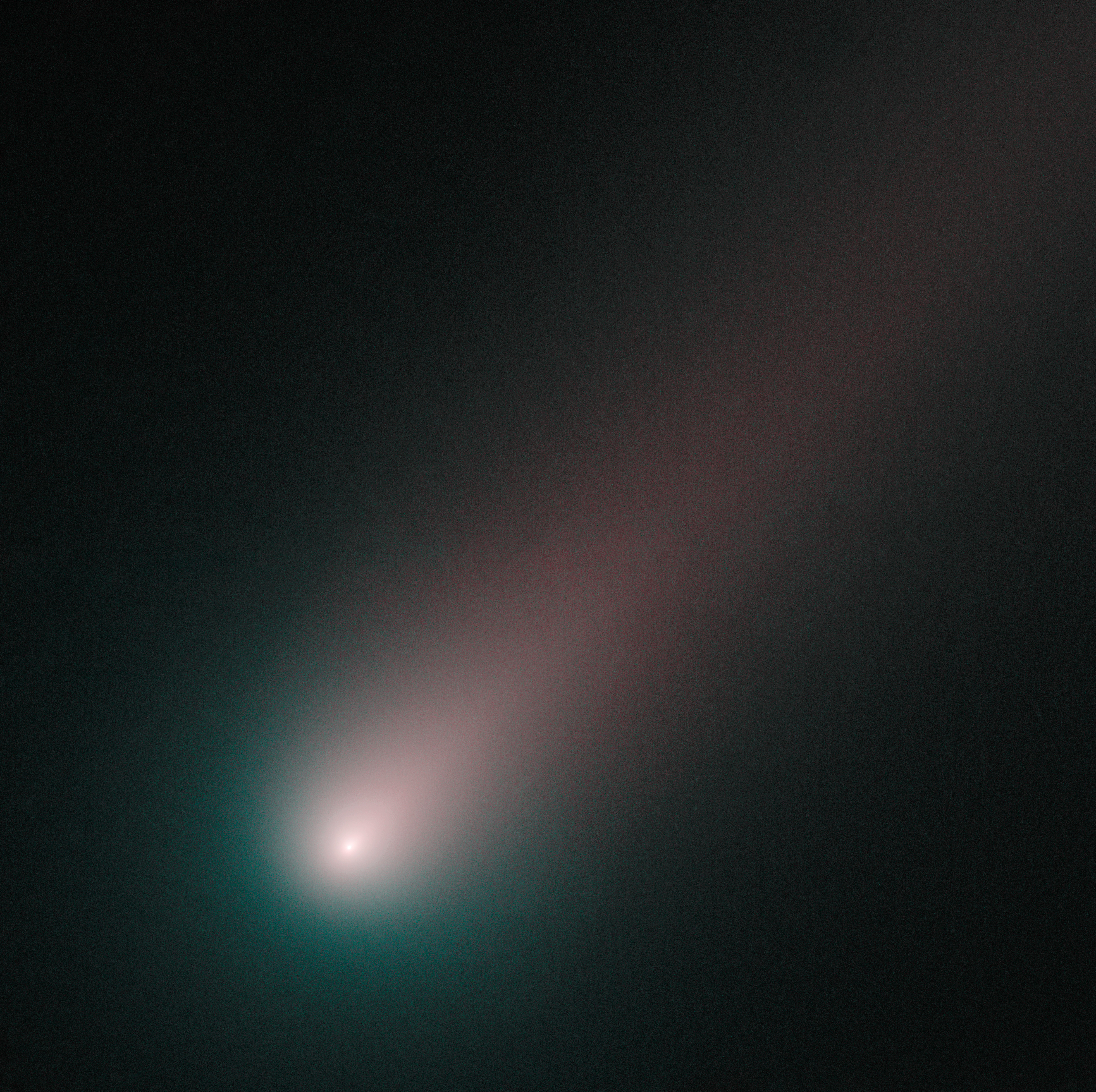 As of mid-November, ISON is officially upon us. Hubble has taken its closest look yet at the innermost region of the comet, where geysers of sublimating ice are fueling a spectacular tail. Made from observations on 2 November 2013, the image combines pictures of ISON taken through blue and red filters. The round coma around ISON's nucleus is blue and the tail has a redder hue. Ice and gas in the coma reflect blue light from the Sun, while dust grains in the tail reflect more red light than blue light. This is the most colour separation seen so far in ISON and the comet, nearer than ever to the Sun, is brighter and more structured than ever before. Comet ISON will come closest to the Sun on November 28, a point in its orbit known as perihelion. Comet ISON was fairly quiet until 1 November 2013, when it experienced an outburst that doubled the amount of gas the comet emitted. After this image was taken, a second outburst shook the comet, increasing its activity by a factor of ten. Over the past couple of nights, the comet has stabilised at its new level of activity. It is now bright enough to be seen with a good pair of binoculars from a dark site, in the morning skies towards the East. Hubble Heritage release ISONblog, an online source offering analysis of Comet ISON by Hubble Space Telescope astronomers and staff at the Space Telescope Science Institute in Baltimore, USA.